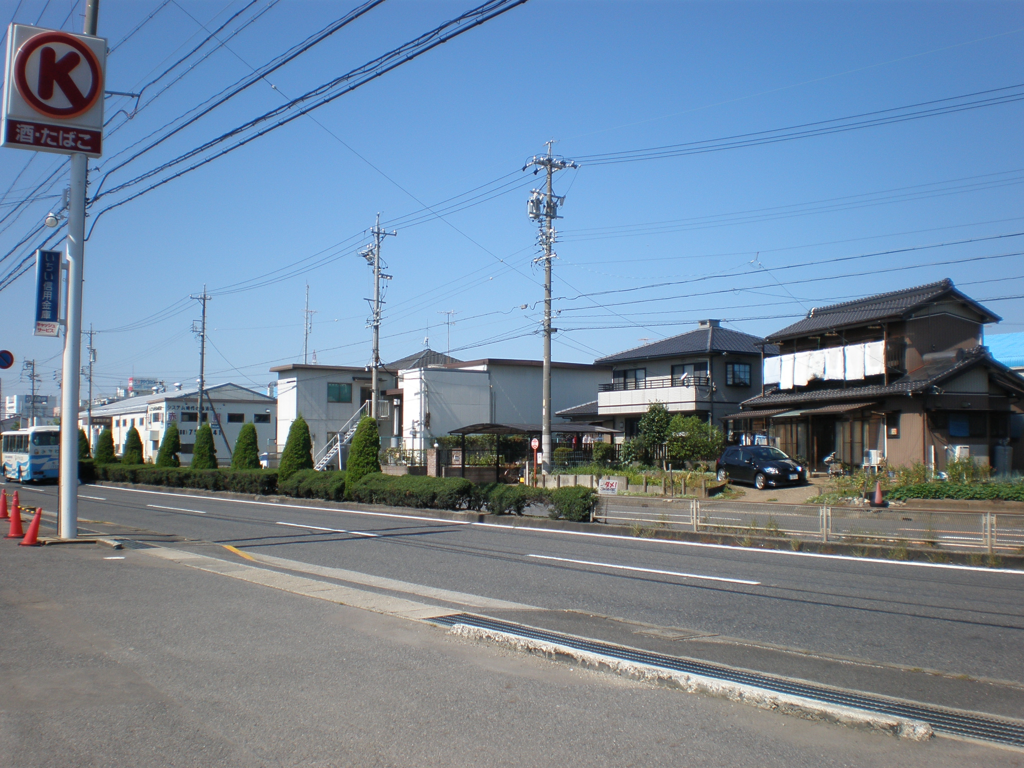 Aichi prefectural road No.451.JPG